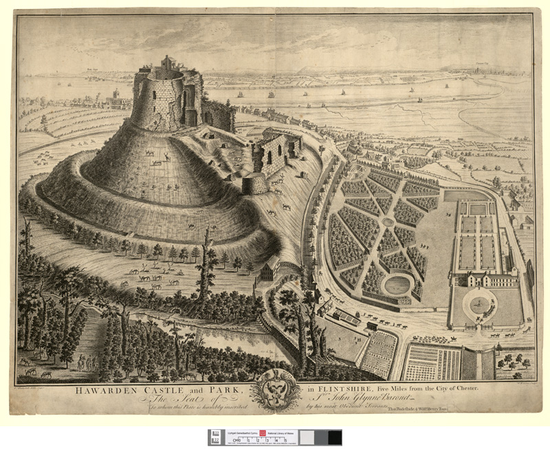 Overview of castle and grounds, ships and landscape.